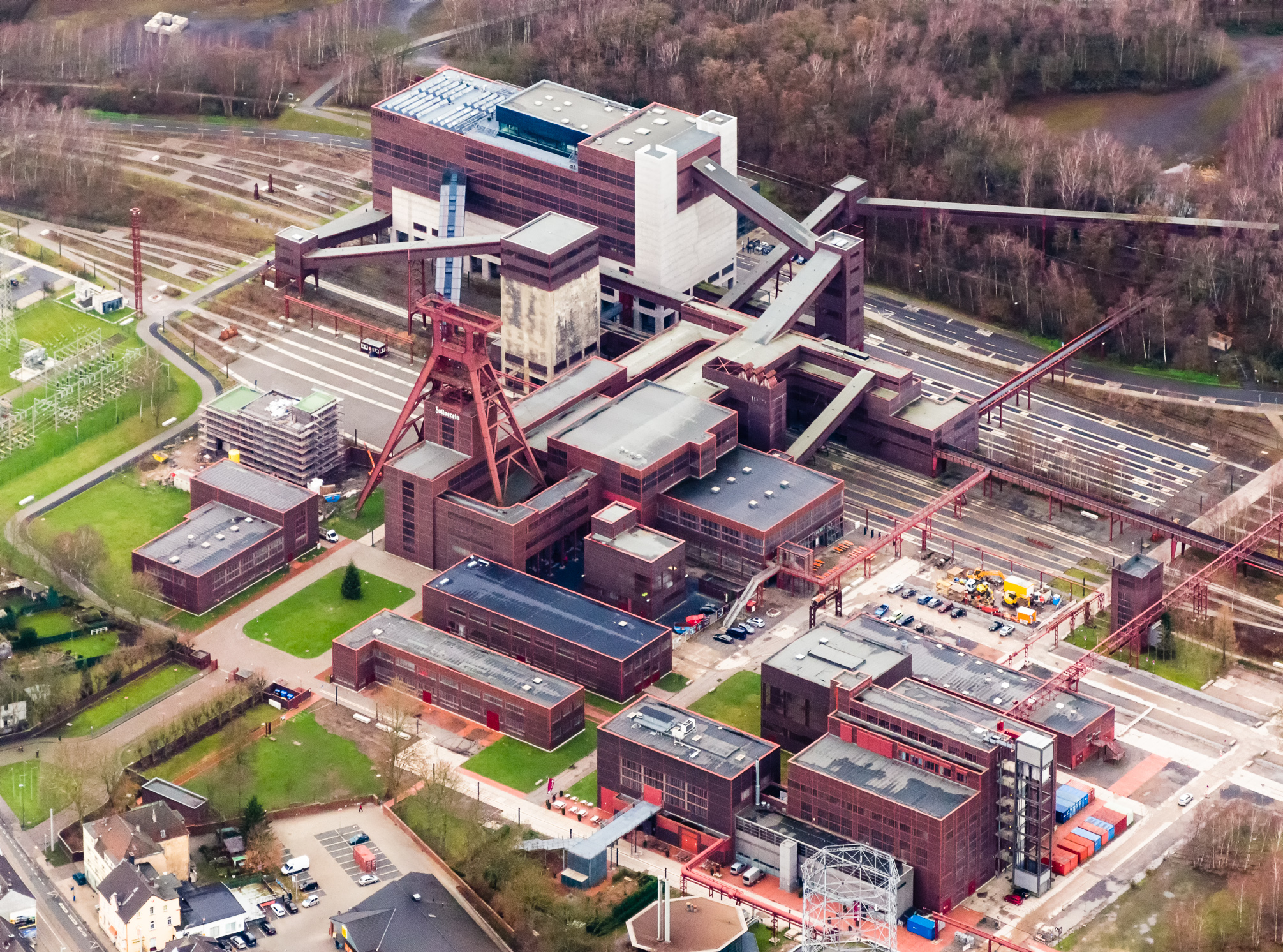 Aerial photograph of UNESCO World Heritage Site Zeche Zollverein in Essen